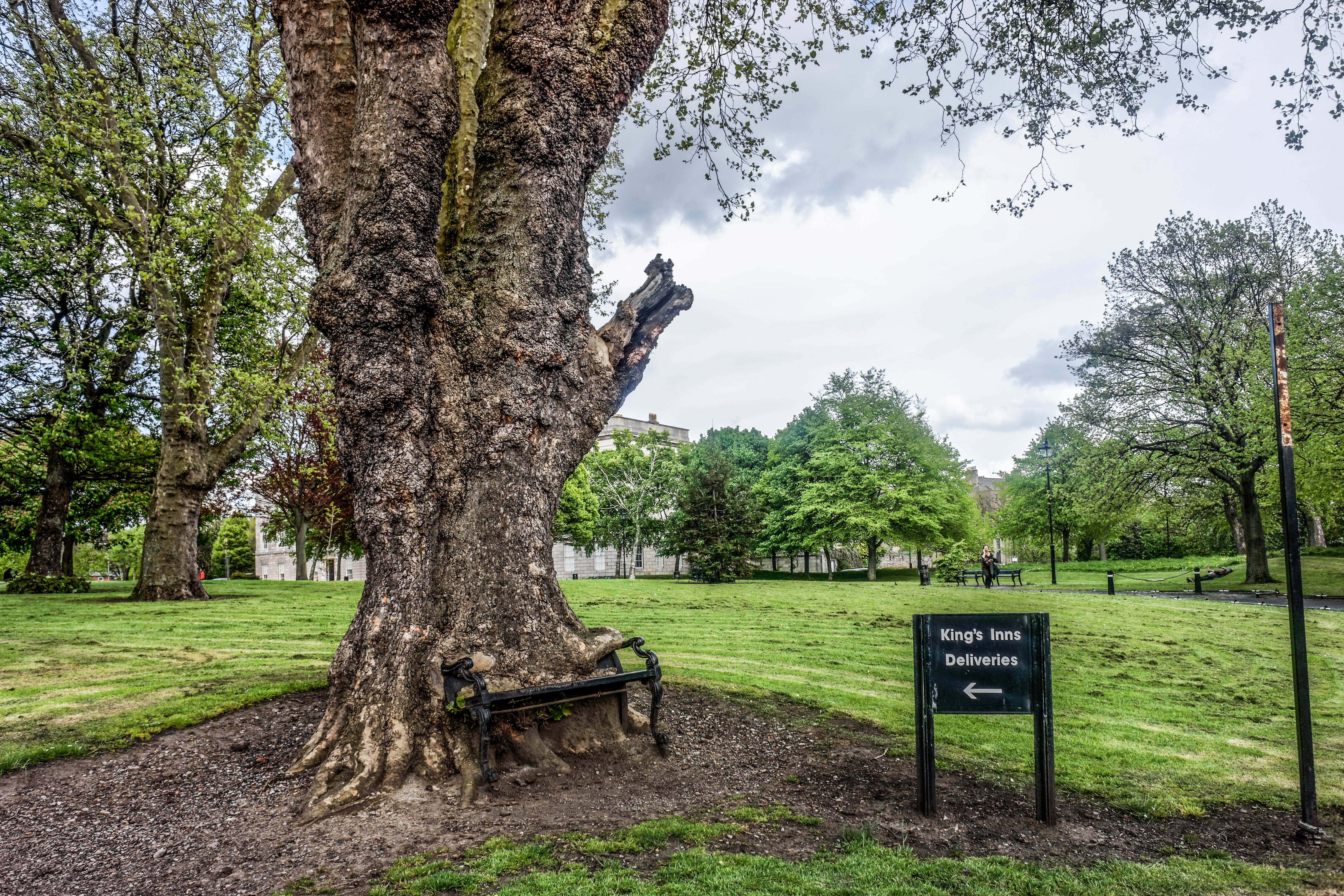 Hungry Tree at King’s Inns, Dublin. A London plane that appears to be consuming a bench.